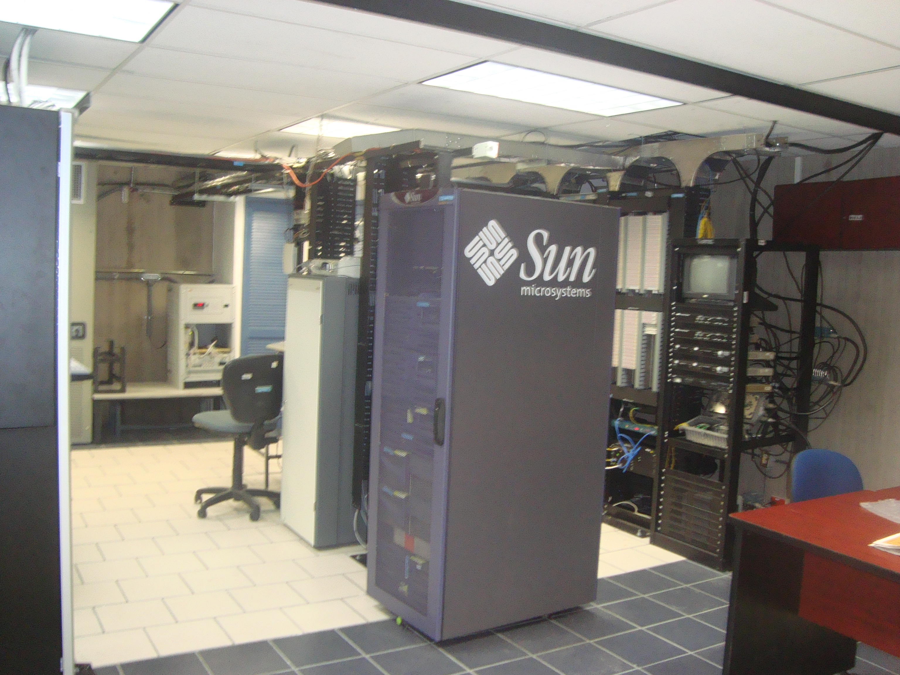 Server udg